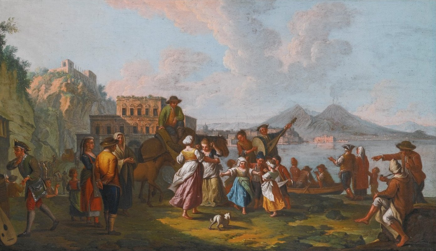 Tarantella at Palazzo Donn'anna with Vesuvius in the Background by Pietro Fabris, oil on canvas, 40 by 73.6 cm.